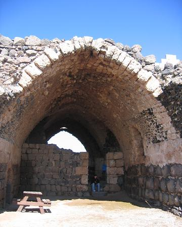 Belvoir chamber.